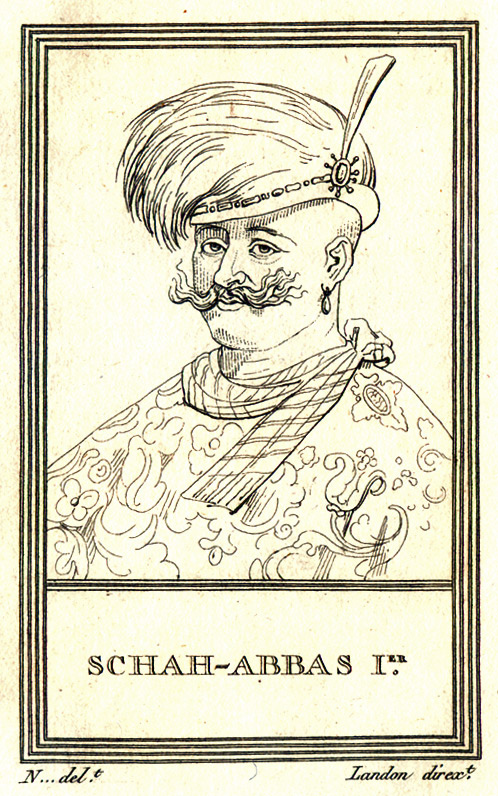 Shah Abbas I of Persia (Shah Abbas the Great)